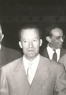 Photo de groupe à gauche de l'écrivain Mahmoud Othman Alkaaak Mahmoud Messadi et ministre Ahmed Nur al-Din et Ahmed Abdel Wahab